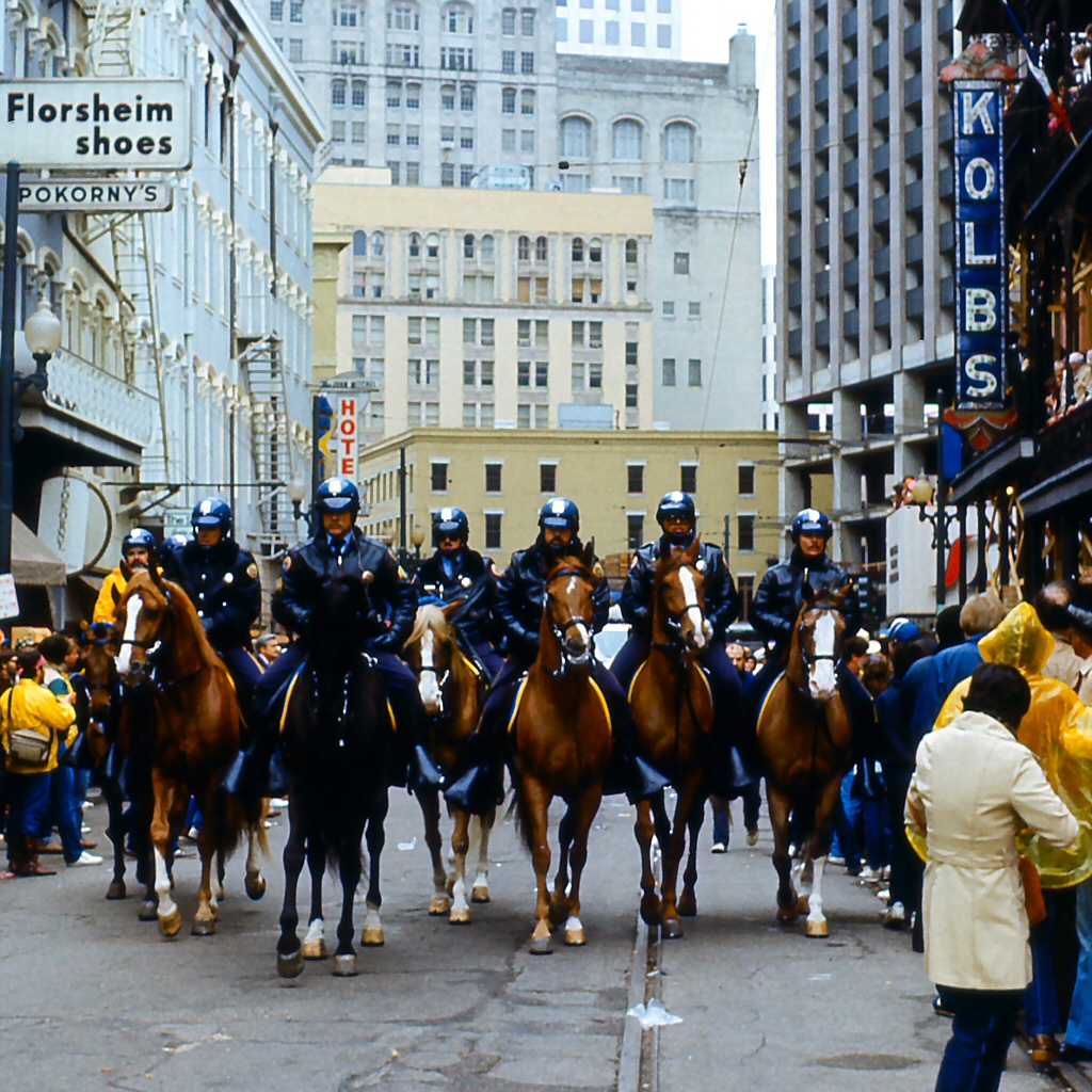 New Orleans Mardi Gras 1984. Mounted police on St. Charles St. just up from Canal. View looking uptown. On right is sign of Kolb's Restaurant; the Place St. Charles building is seen under construction beyond it.